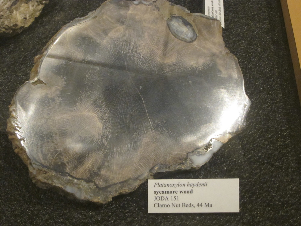 Taken from the John Day Nut Beds by the National Park Service (NPS). 44 million years old.